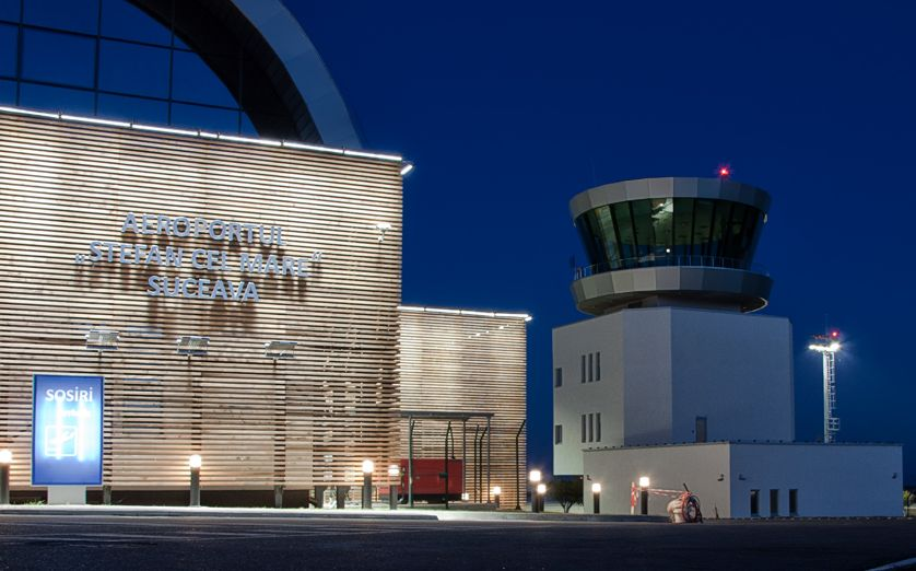 Suceava Ştefan cel Mare International Airport - new TWR and main terminal building.